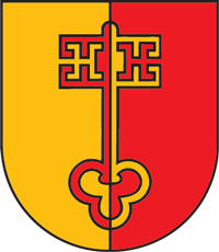 coat of arms of the city of Zilupe, Letònia